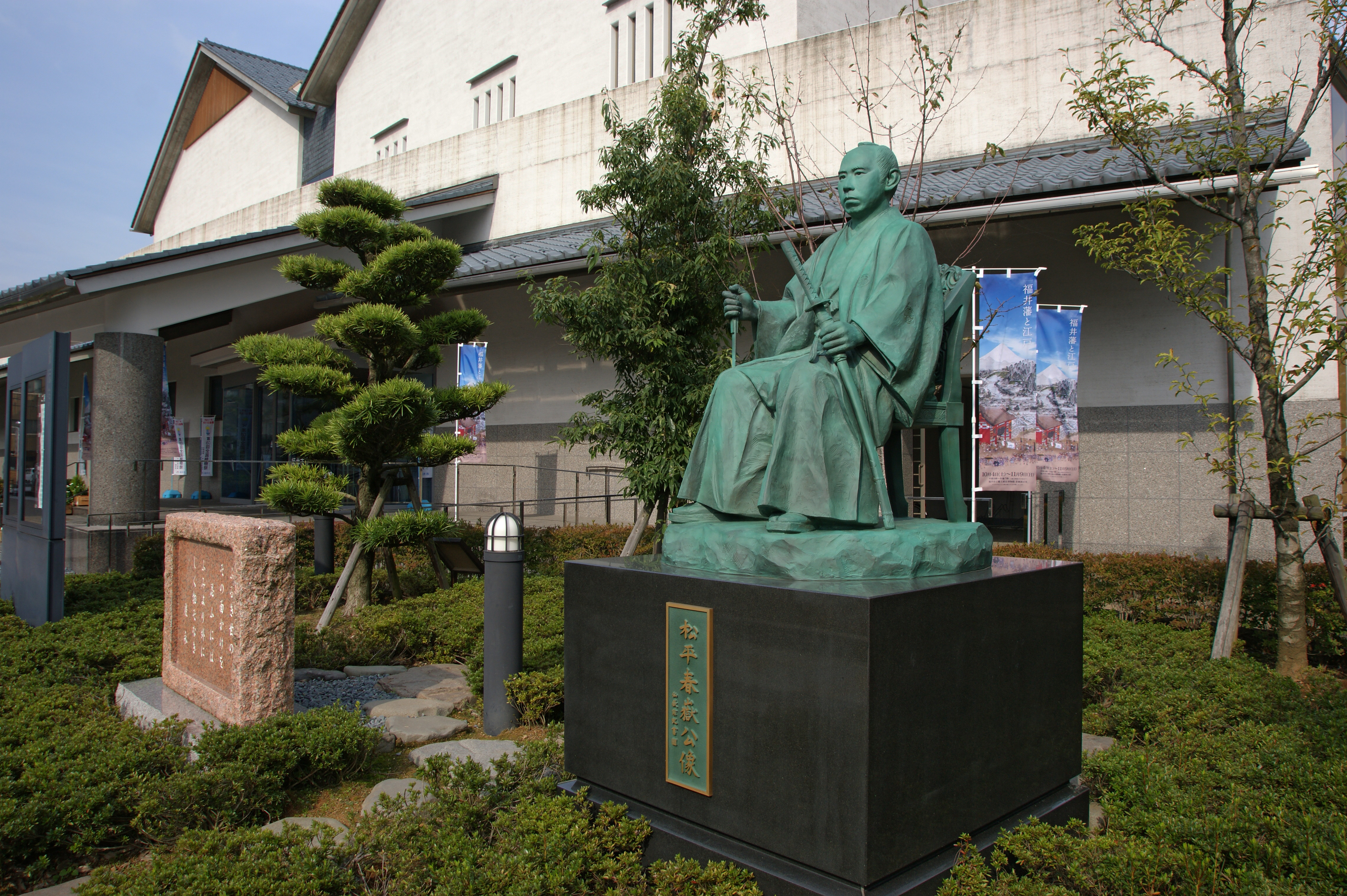 Fukui City History Museum, Fukui, Fukui prefecture, Japan A statue in front of the museum is Matsudaira Shungaku's one.